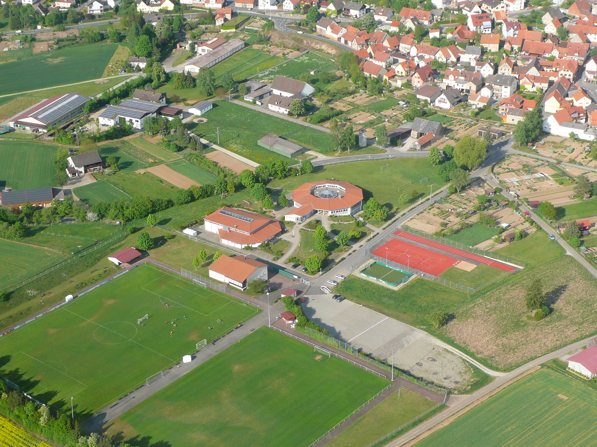 Aerial view of Steinfeld (Lower Franconia), Germany. School and sports area.